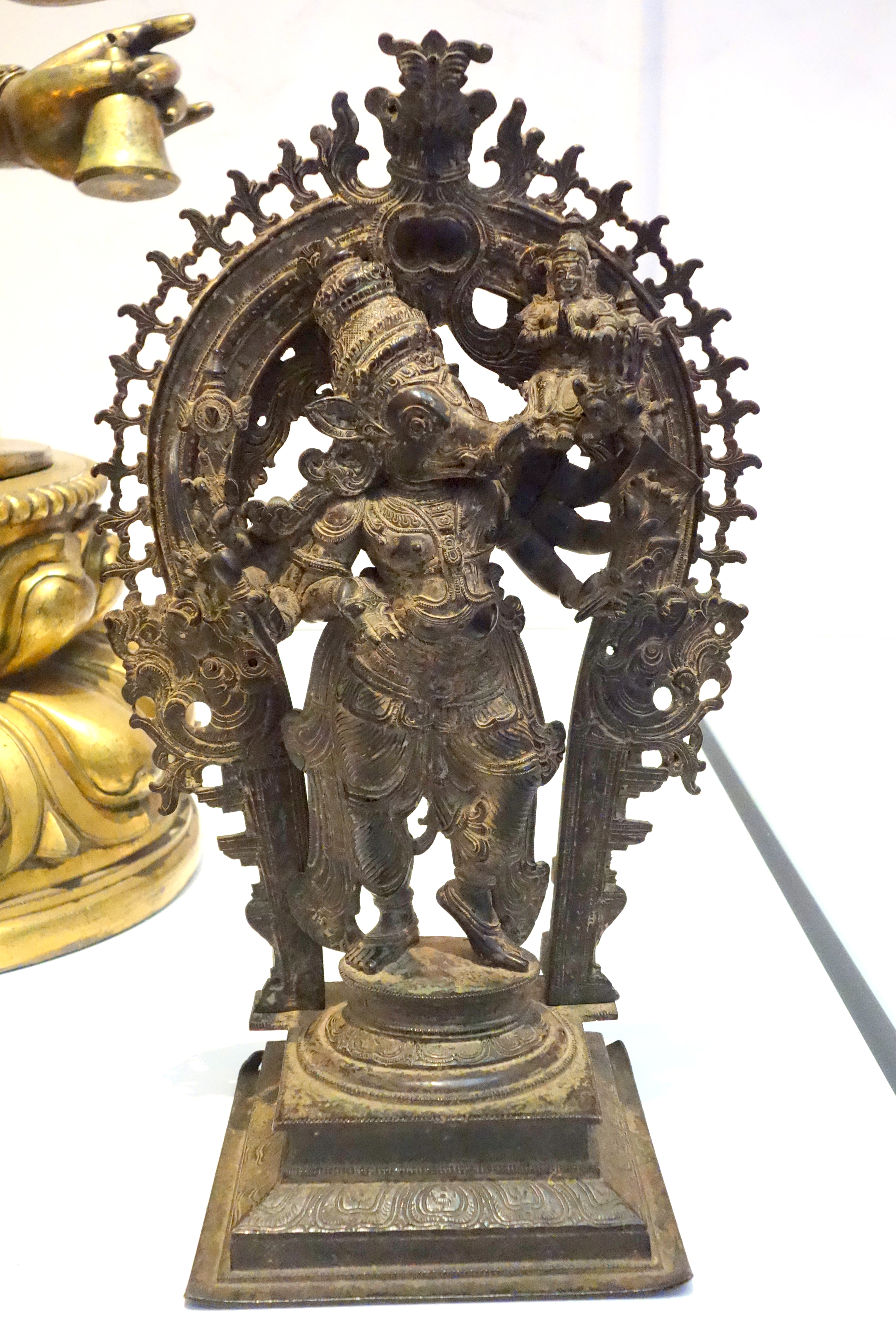 Exhibit in the Brooklyn Museum - Brooklyn, New York, USA. This artwork is in the public domain because the artist died more than 70 years ago.